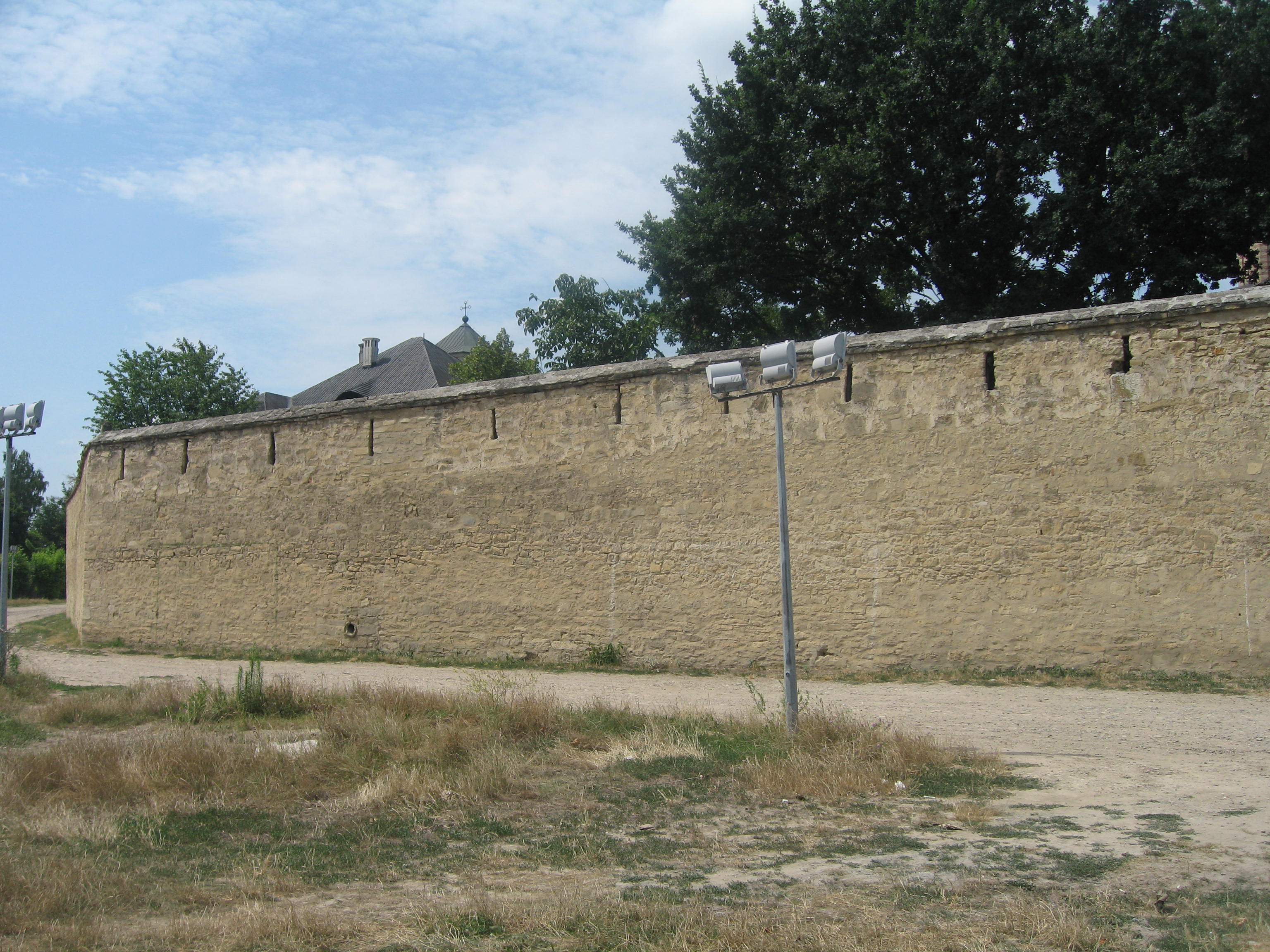 Manastirea Galata